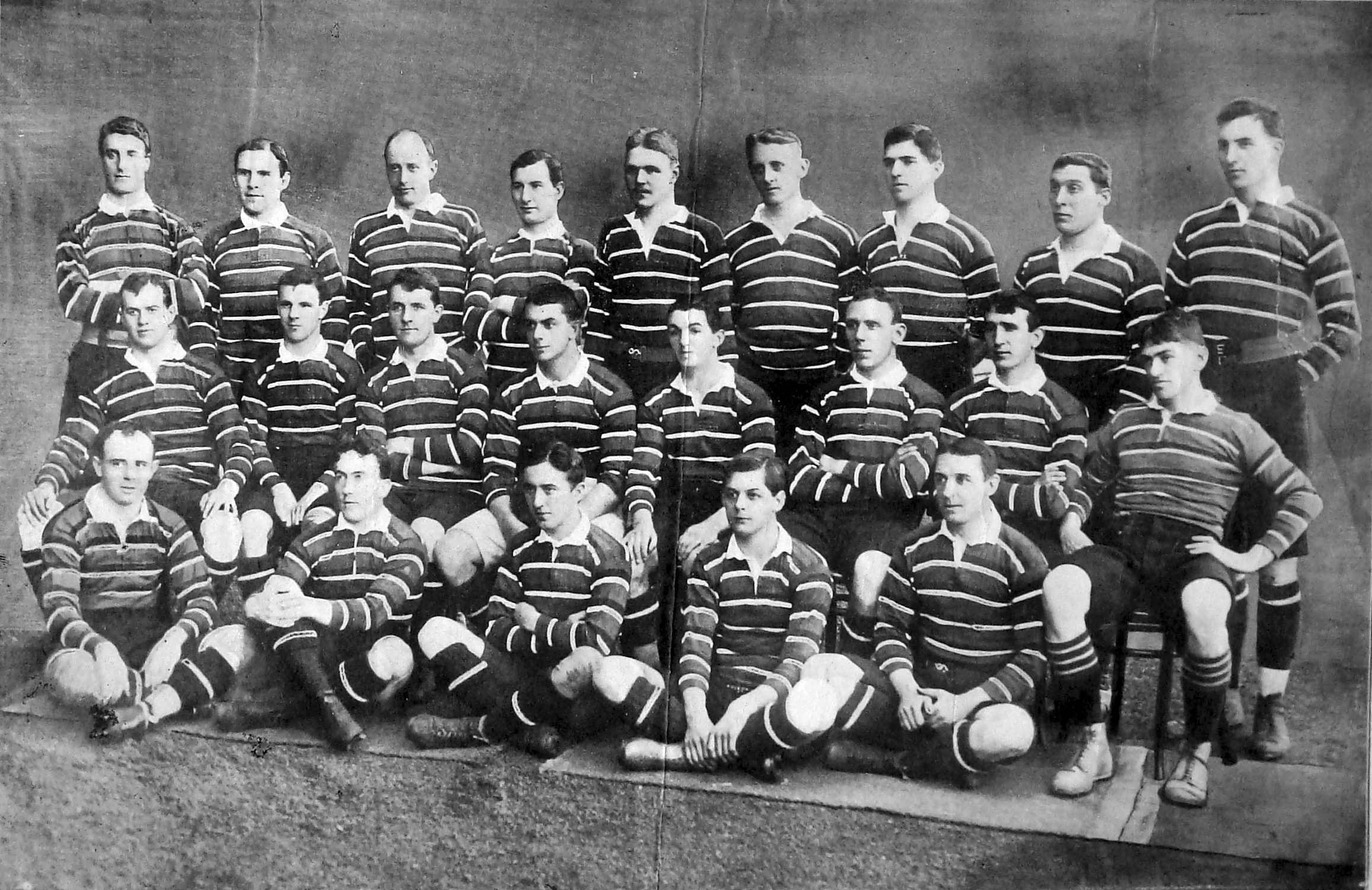 The British Isles (then "British and Irish Lions") team that toured to Australia.